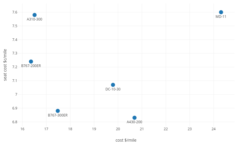 Airliner Seat Cost vs Trip Cost data from Airline Statistics information, ICAO, 28 April 2008